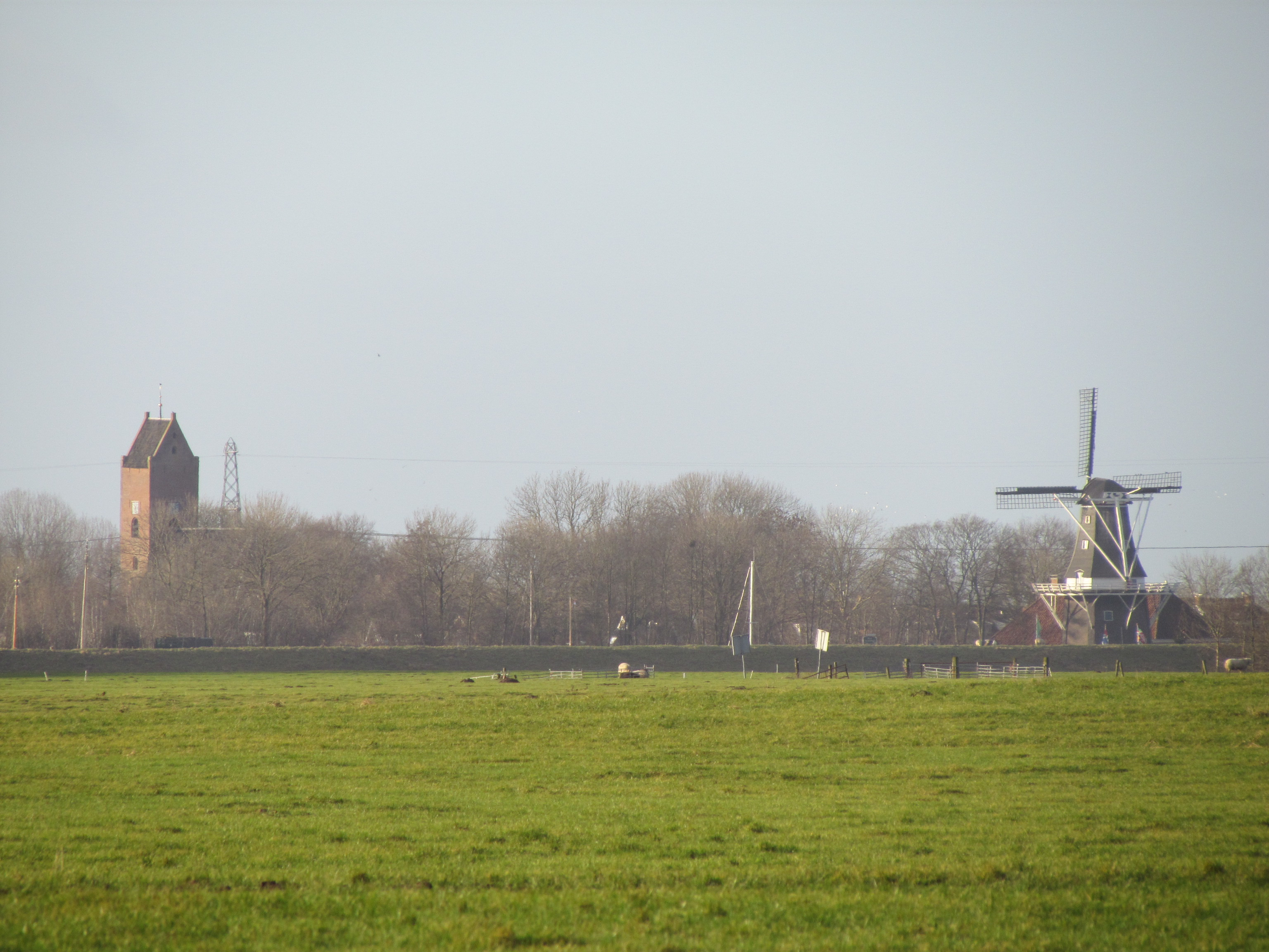 View of Garnwerd as seen from Sauwerd